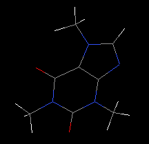 stick model of caffeine drawn in Jmol